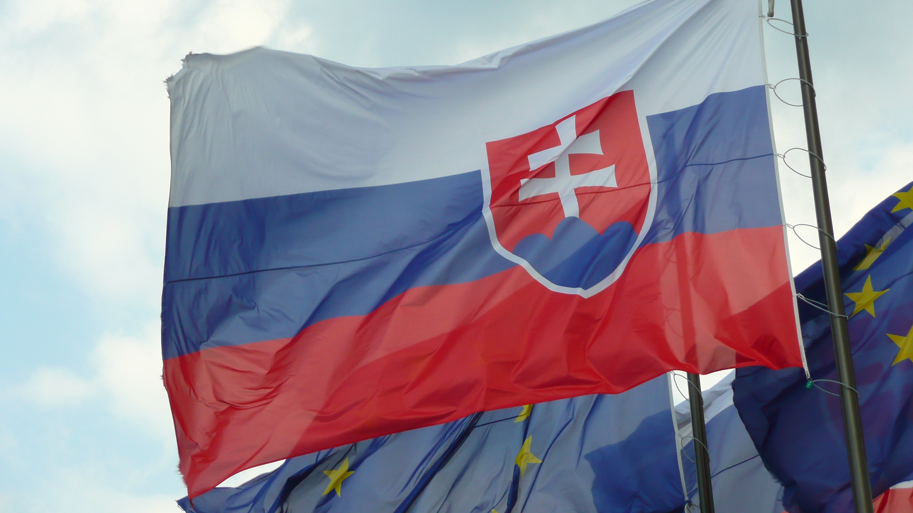 Flag of Slovakia near National Council of the Slovak Republic.